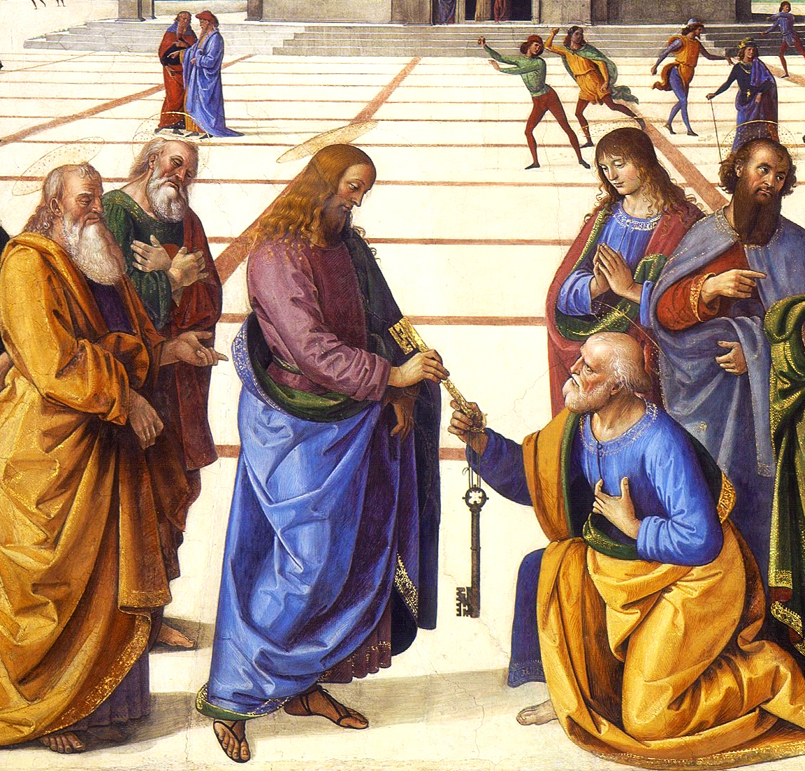 Christ Handing the Keys to St. Peter by Pietro Perugino (1481-82) Fresco, 335 x 550 cm Cappella Sistina, Vatican.